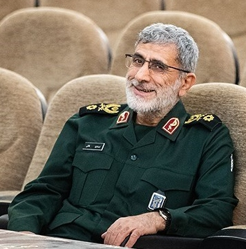 Brig. Gen. Esmail Ghaani in New IRGC commanders hail and farewell.